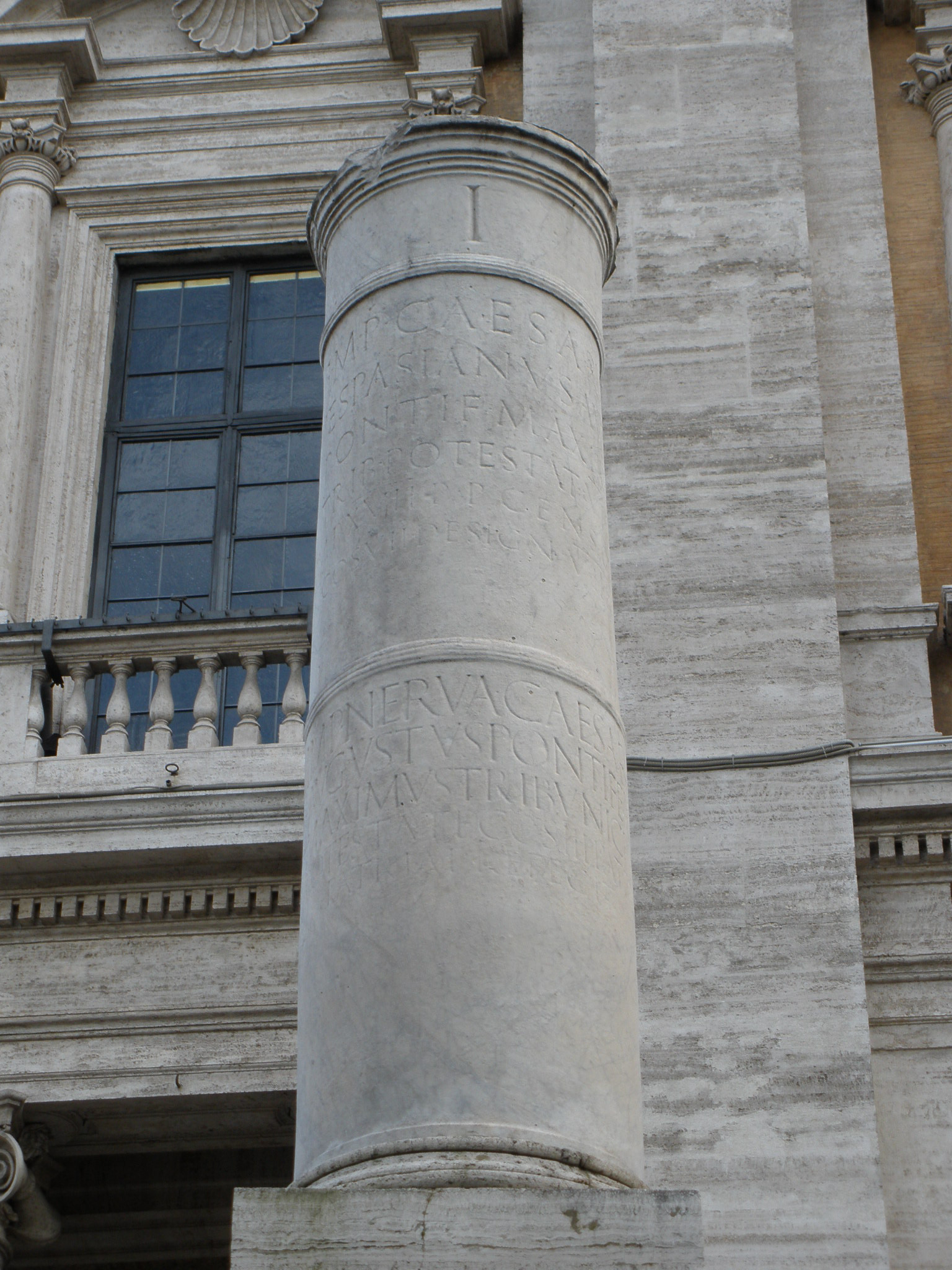 Miliarium I (the first mile sign) for the Appian Way, on the top of Cordonata, the monumental ladder that goes up to piazza del Campidoglio, in Rome.